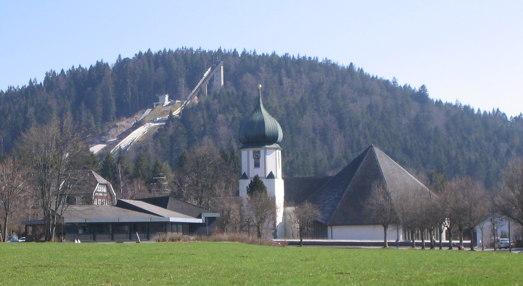 Hinterzarten (church and ski jumping tower)